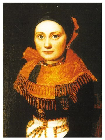 Leisebeth Jens Hansen Snedkers, wife of Hans Nielsen Jeppesen